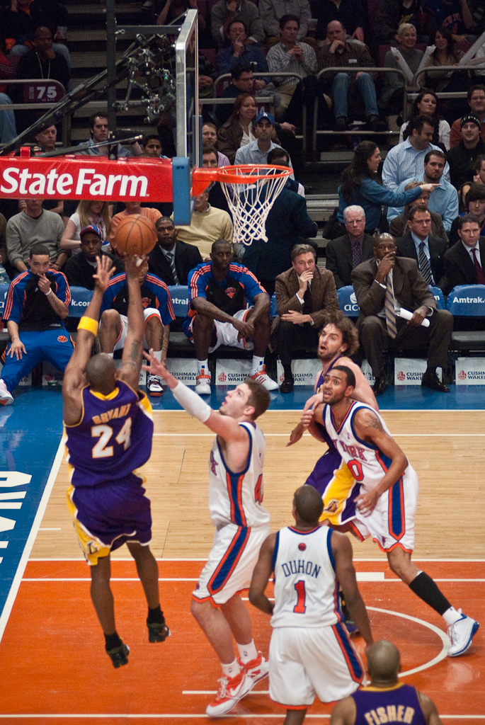 Kobe Bryant and the Lakres playing the New York Knicks at Madison Square Garden on February 2, 2009.